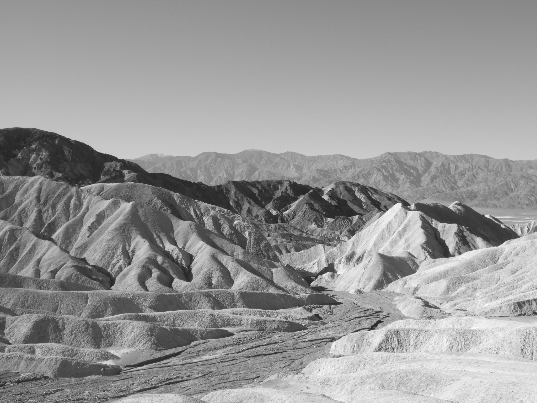 Zabriskie Point in Death Valley, California, USA